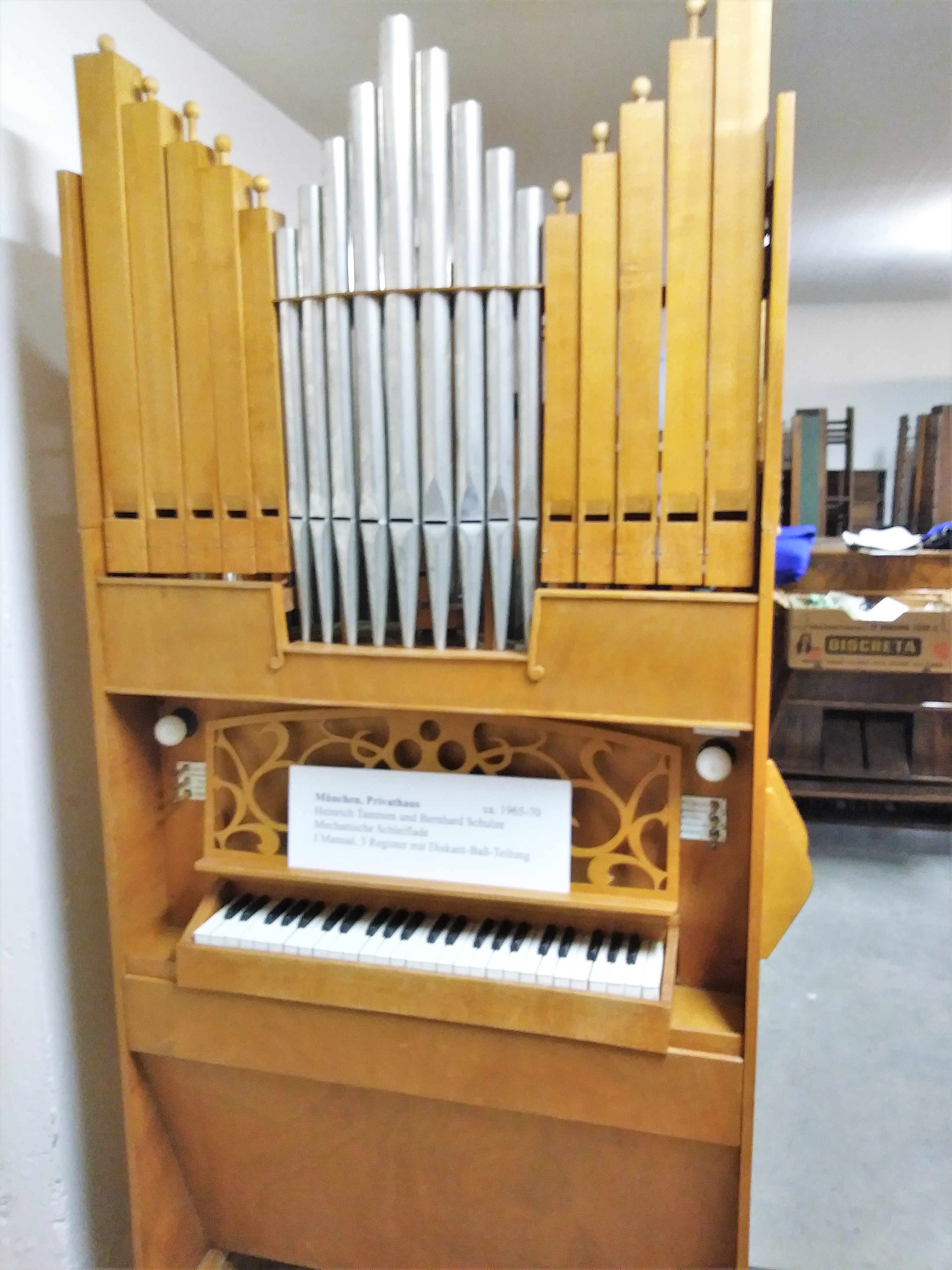 Orgel- und Spieltischsammlung im Untergeschoss der Zollingerhalle (Orgelzentrum Valley)